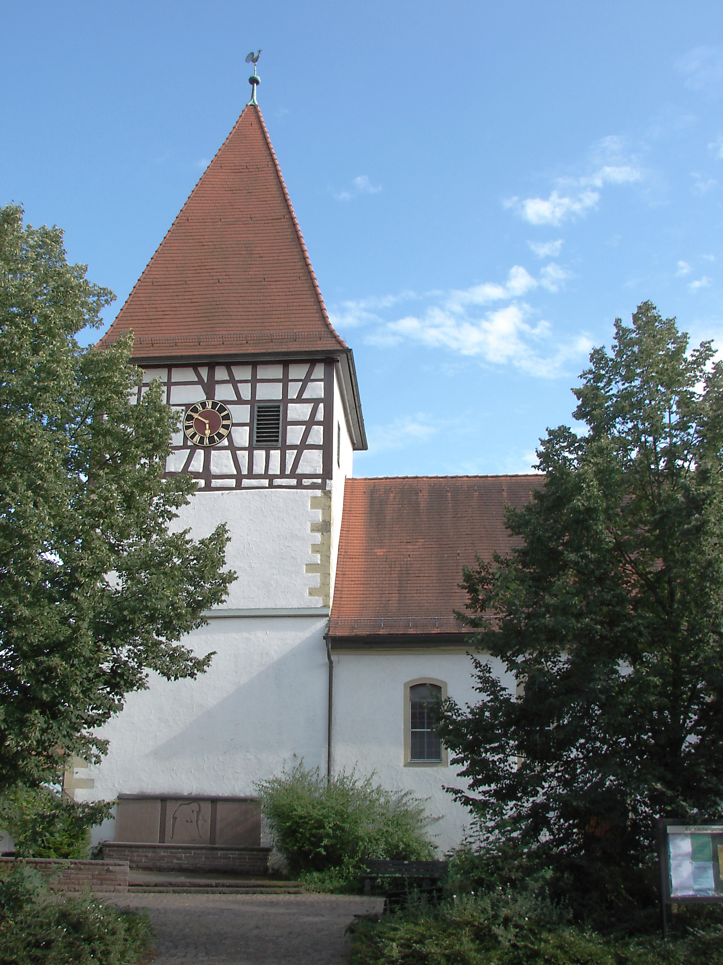 Steinheim an der Murr, village of Höpfigheim: St. George's church